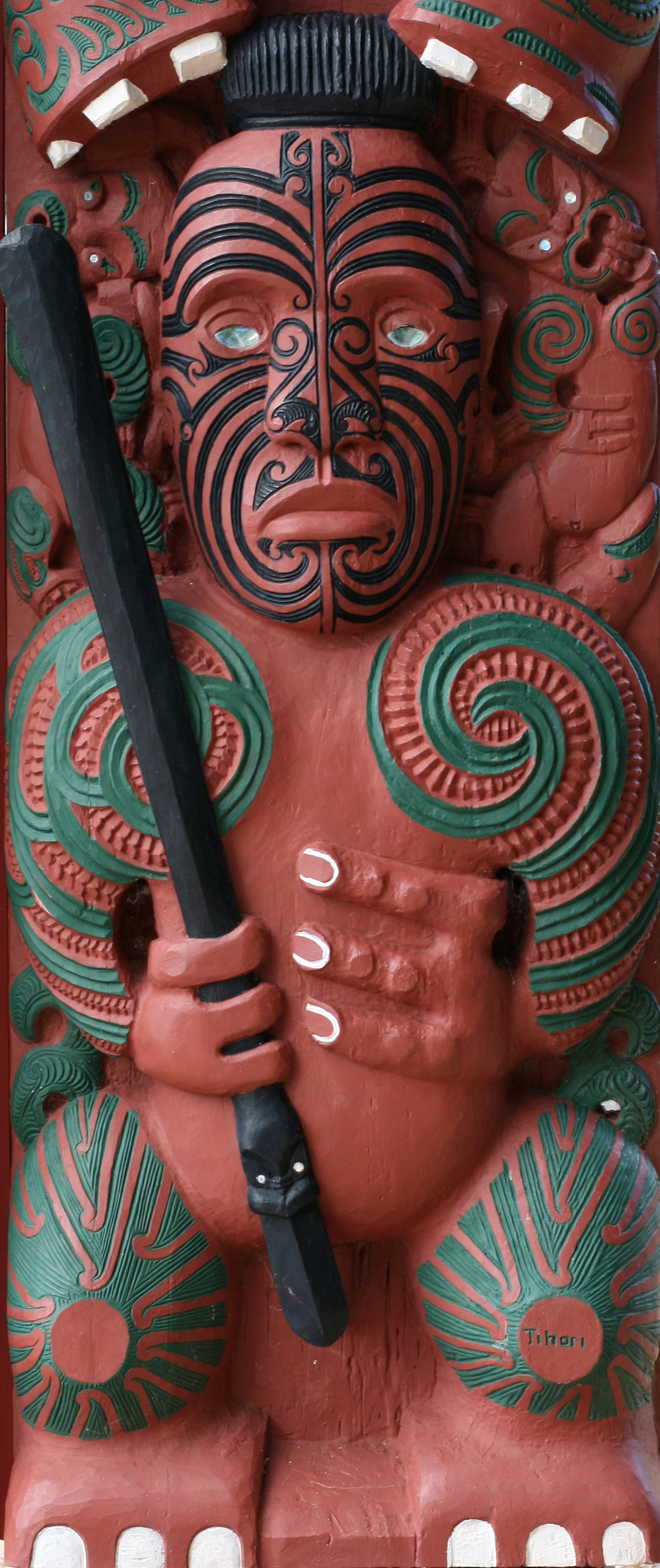 Carving representing Tihori, ancestor of the Māori tribe Ngāti Awa of Bay of Plenty, New Zealand. From the canoe house at Waitangi Treaty Grounds, Waitangi, Bay of Islands, New Zealand. Tihori is depicted holding a taiaha, a weapon used in hand-to-hand combat, signifying his prowess and exploits as a warrior. Tihori is a link between Ngāti Awa and the peoples of Northland. His ancestry: From Toroa of the Mataatua canoe came Wairaka, from Wairaka came Raukura, from Raukura came Te Aowhakahaha, from Te Aowhakahaha came Kuirangi and from Kuiarangi came Tihori. Tihori married Kopura-kai-whiti of Te Marangaranga and resided at Taiwhiti-Kaeaea and Taiwhero near Putauaki/Mt Edgecumbe. He belonged to Ngā Maihi, an ancient hapu of Ngāti Awa. When Tihori decided to depart the region on his waka, Whakapaukarakia, to go to Tai-tokerau (Northland), he was prevented by the rest of Ngāti Awa from departing. Tihori then ordered his taniwha (mythical monster) to open a channel from the Rangitaiki River to the Tarawera River and to carve a new outlet to the ocean at Te Awa-o-te-Atua. His whānau (family) remained behind and their descendants are Ngā Maihi of Matahina and Te Teko in the Bay of Plenty.